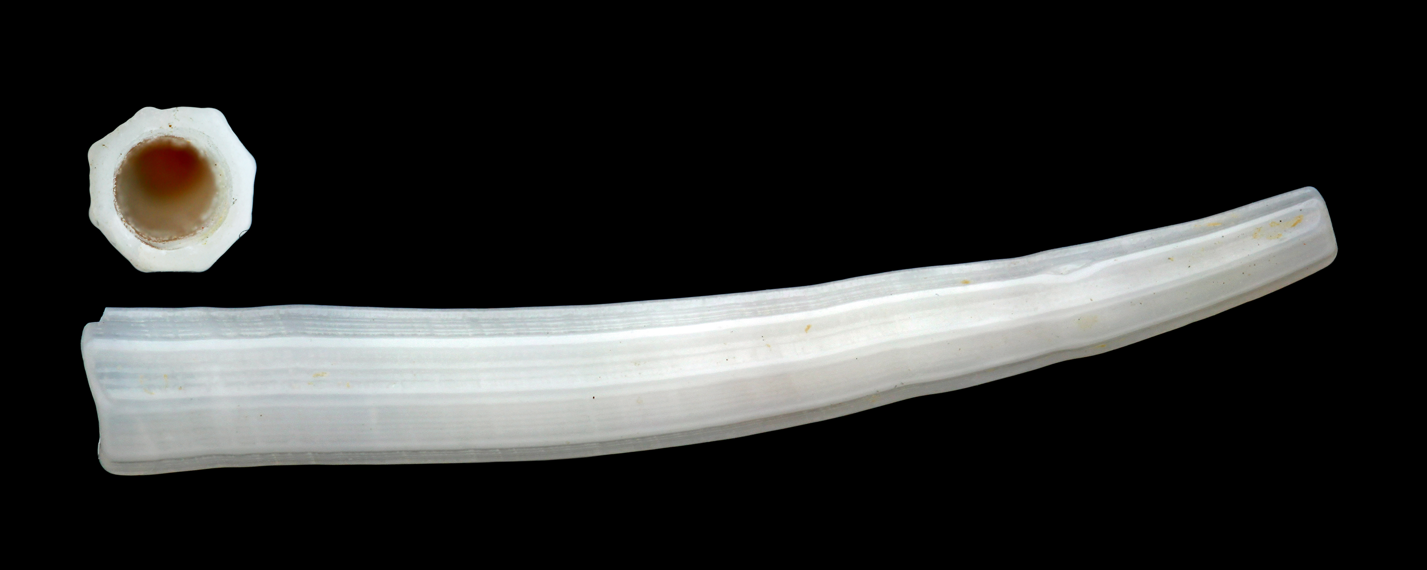 Length 3.4 cm; Originating from Madilla Beach, Tangalle, Sri Lanka; Shell of own collection, therefore not geocoded. Lateral and frontal view.